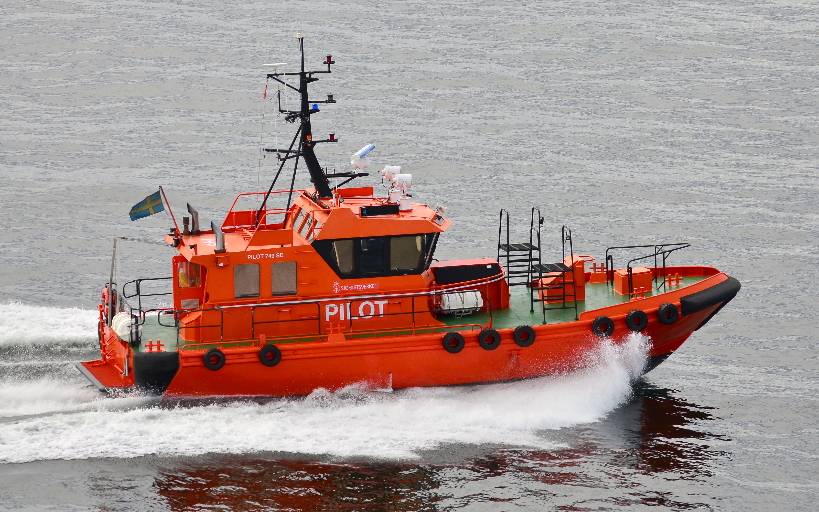 Pilot 749 SE near Landsort, Stockholm archipelago